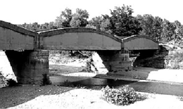 Concrete Stryama Bridge, built 1928, demolished 2008